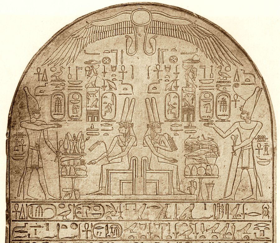 Stela of Ahmose honouring Tetisheri. Found in the ruins of Tetisheri's pyramid in the complex of Ahmose's pyramid at Abydos, Egypt.